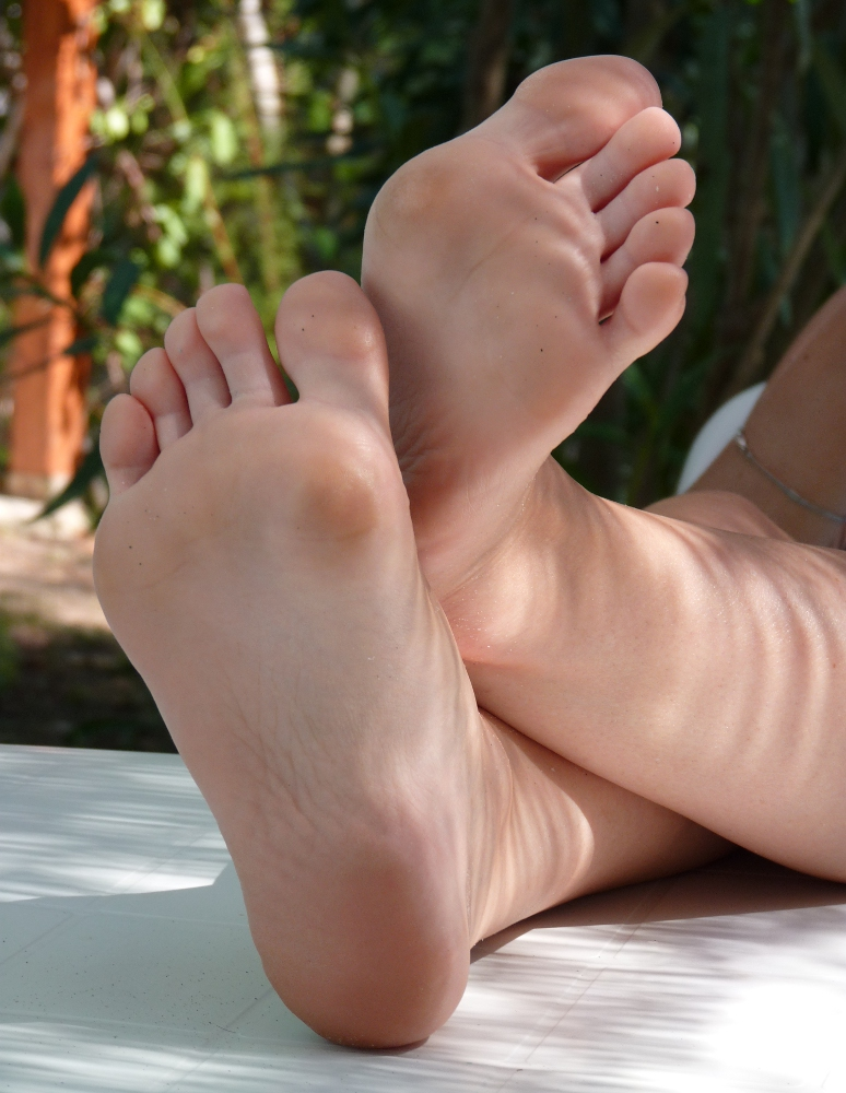 Foot soles